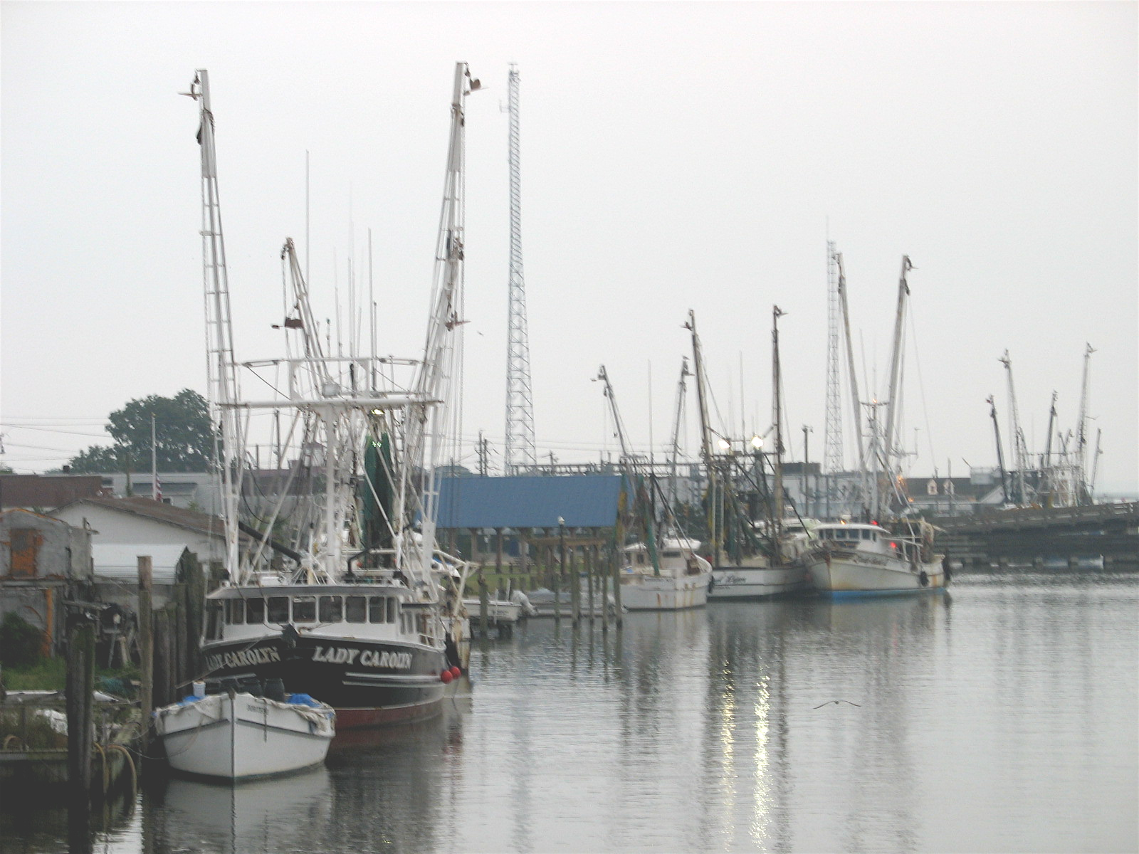 Chincoteague Island is perfect. No ubermen anywhere. Daggy. Its a real town- real fishing boats. Fresh fish. Great fresh fish. Did I mention we liked it?